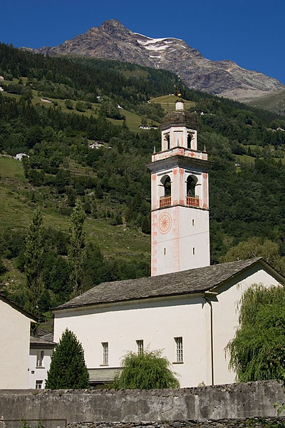 Reformed Church of Poschiavo, Switzerland